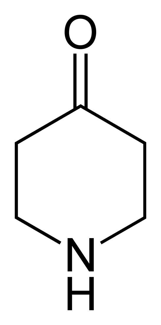 Skeletal formula of piperidin-4-one